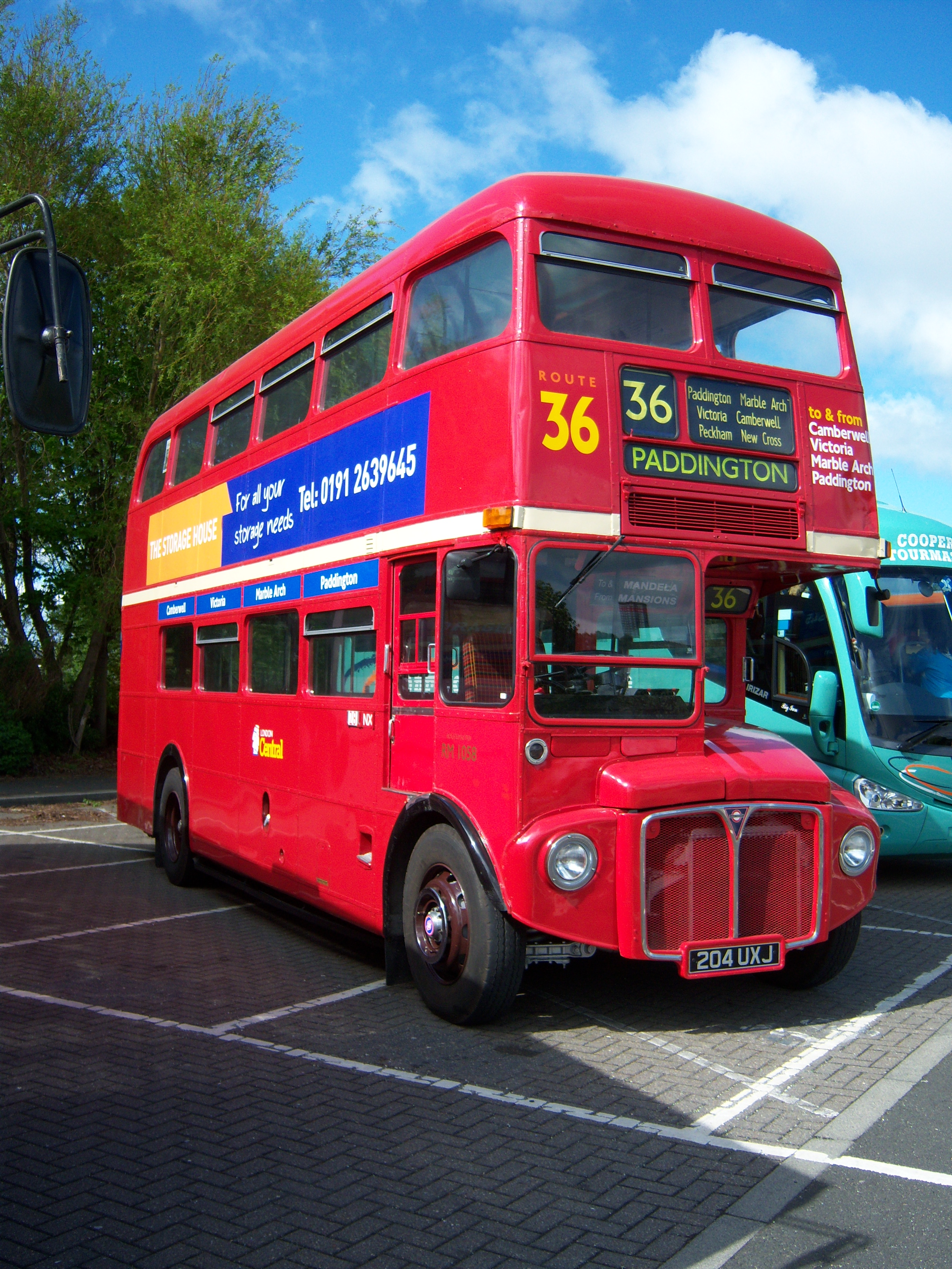 Preserved London Central RM1058 (204 UXJ), an AEC Routemaster, on display at the 2009 Metrocentre bus rally.